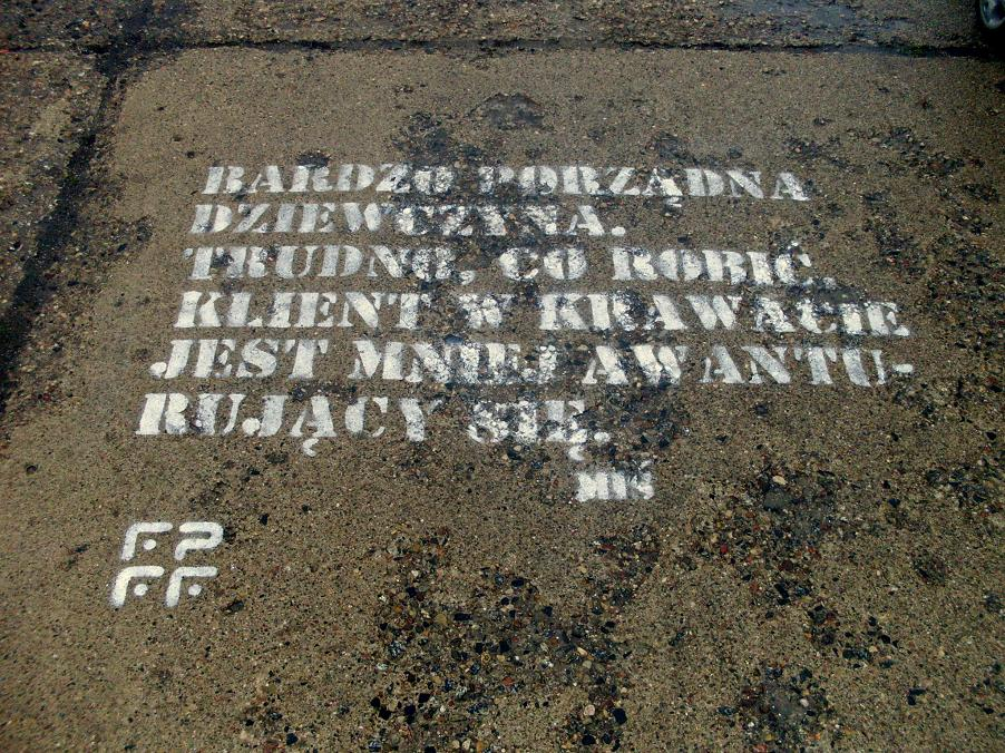 Quotation from film "Bear" advertising XXXIV Polish Film Festival in Gdynia 2009. This photo was made in Bulwar Nadmorski few weeks after the entertainment.